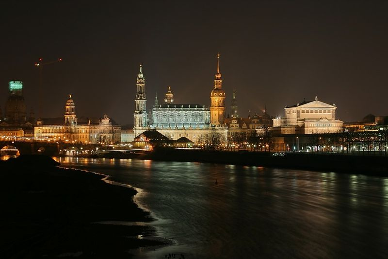 The elbe river in Dresden at night.